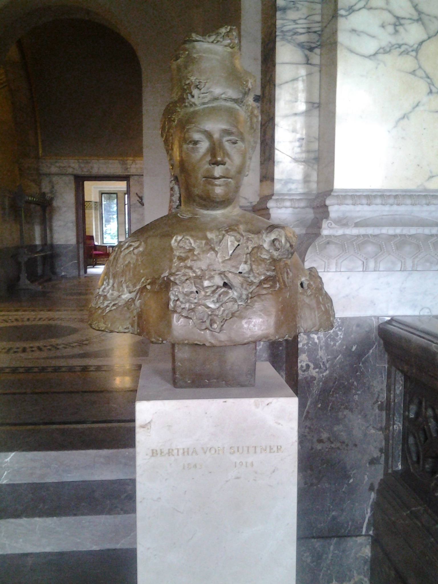 Bust of Bertha von Suttner in the Peace Palace, The Hague (The Netherlands). Sculptor: Judith Pfaeltzer (2013)